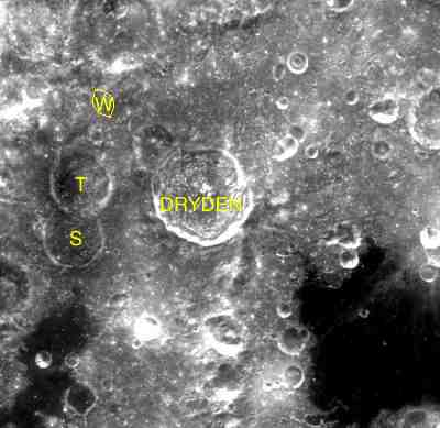 Clementine image from Map-A-Planet with satellite craters lettered.